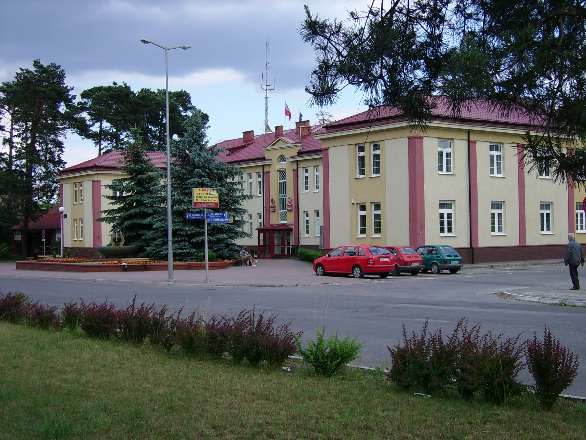 15 Jana Pawła II Avenue in Pionki